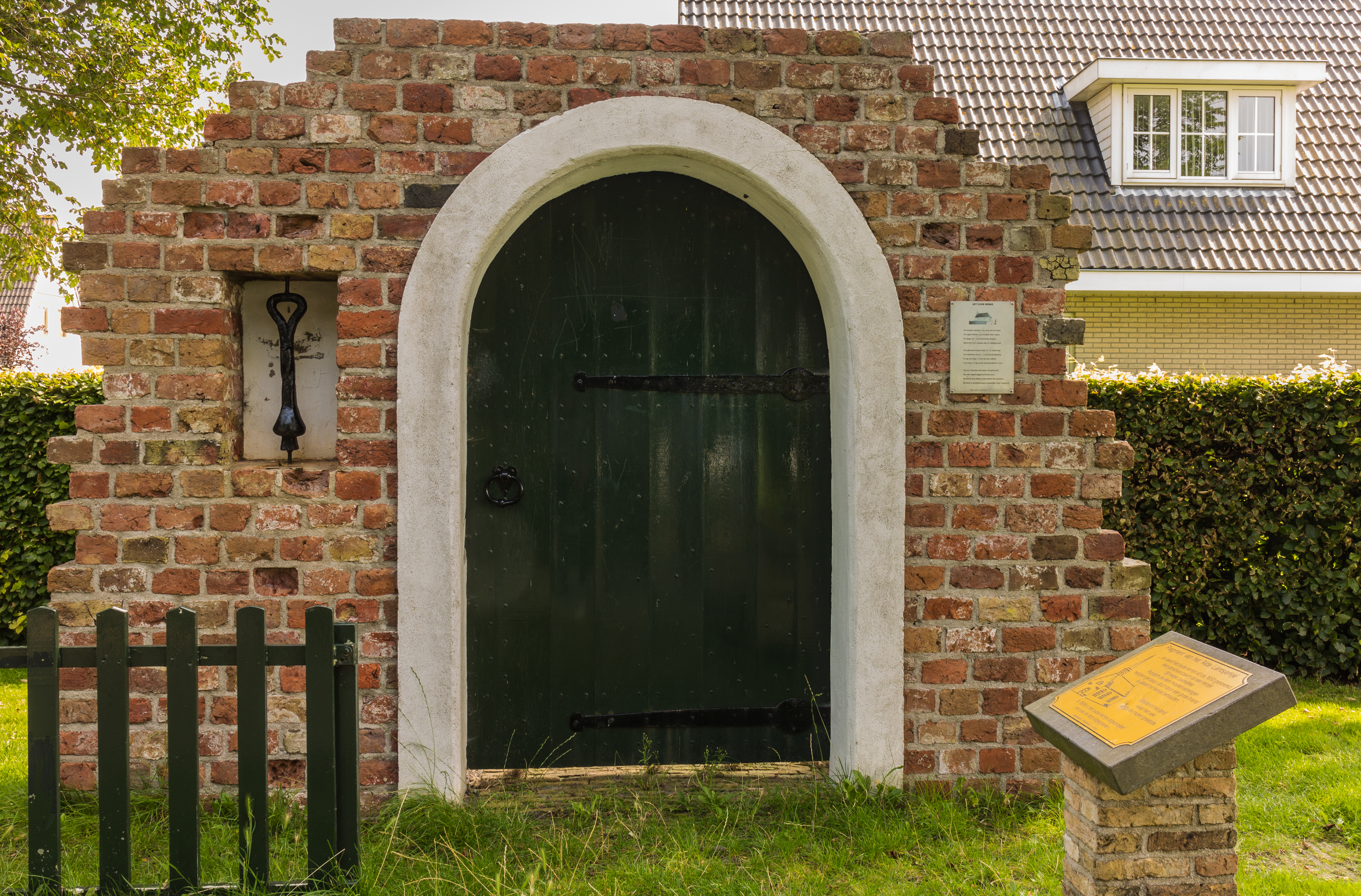 Idskenhuizen. Monument to former church.